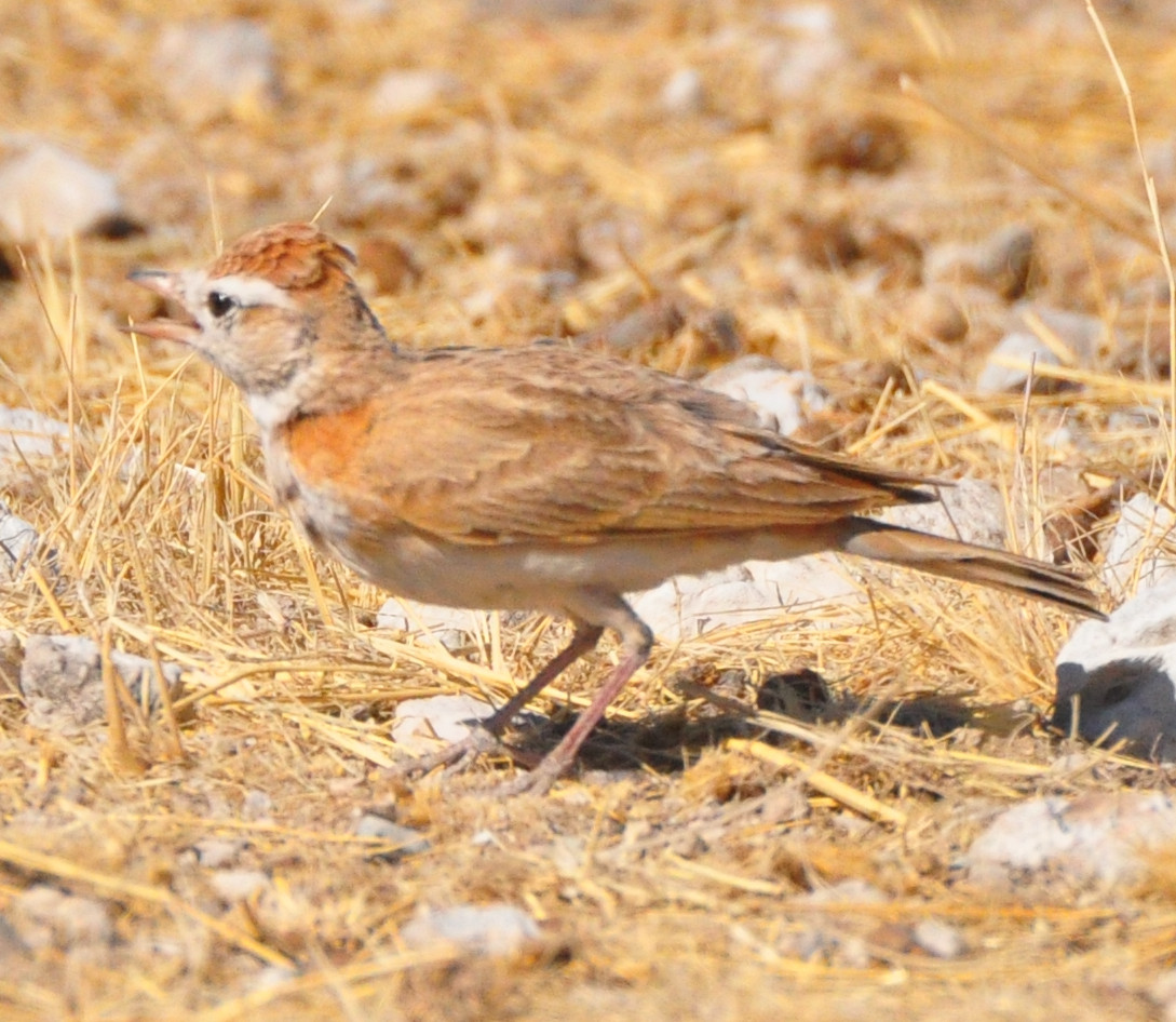 Red-capped lark, Etosha, Namibia